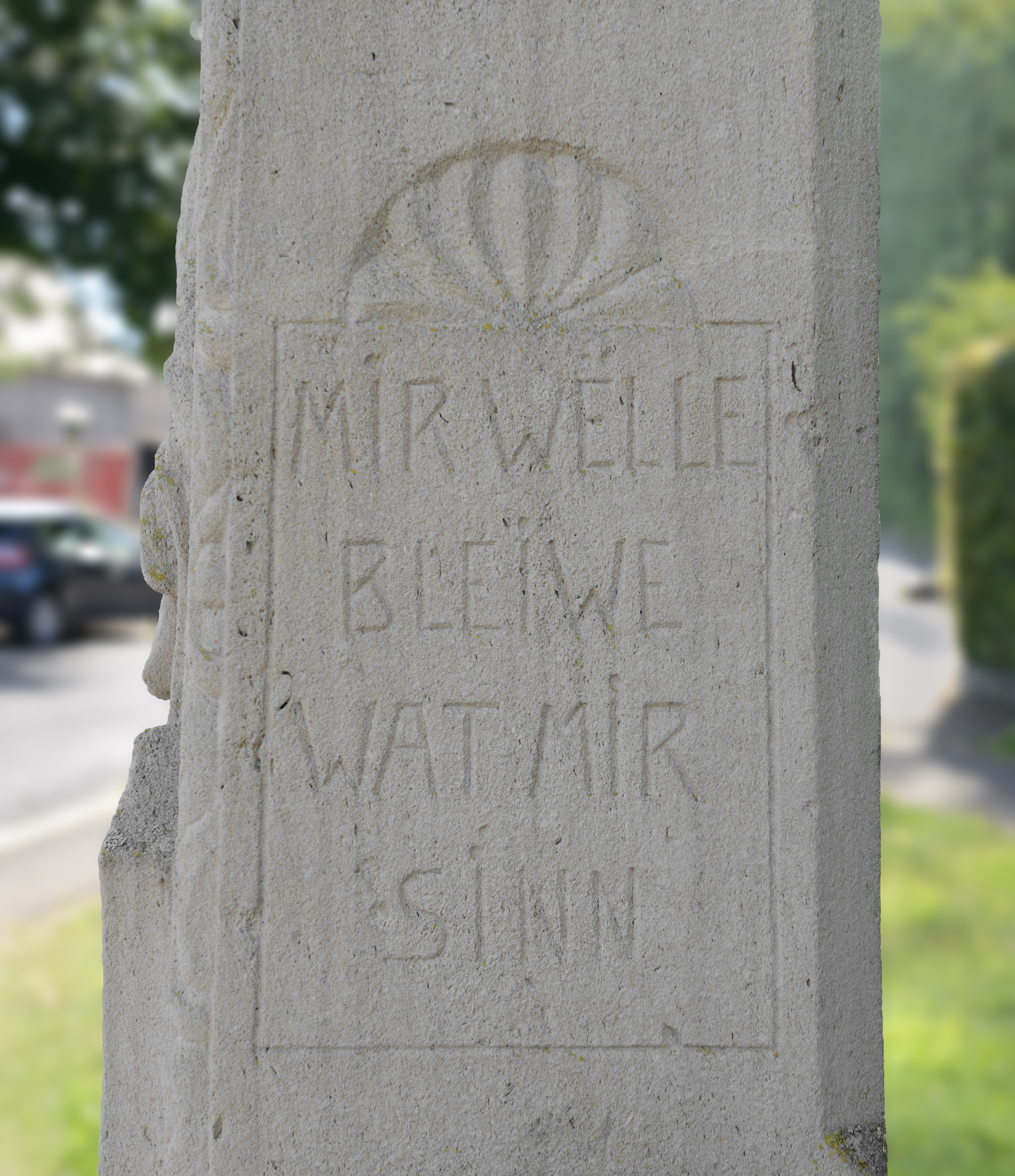 Luxembourg, Beidweiler: right side (south-west) detail of the monument of 1939 commemorating the 100th year of the independence of Luxembourg.